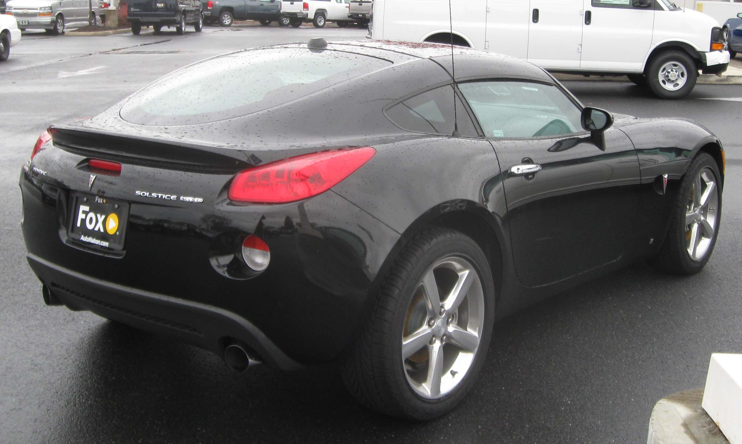 2009 Pontiac Solstice GXP photographed in Laurel, Maryland, USA.